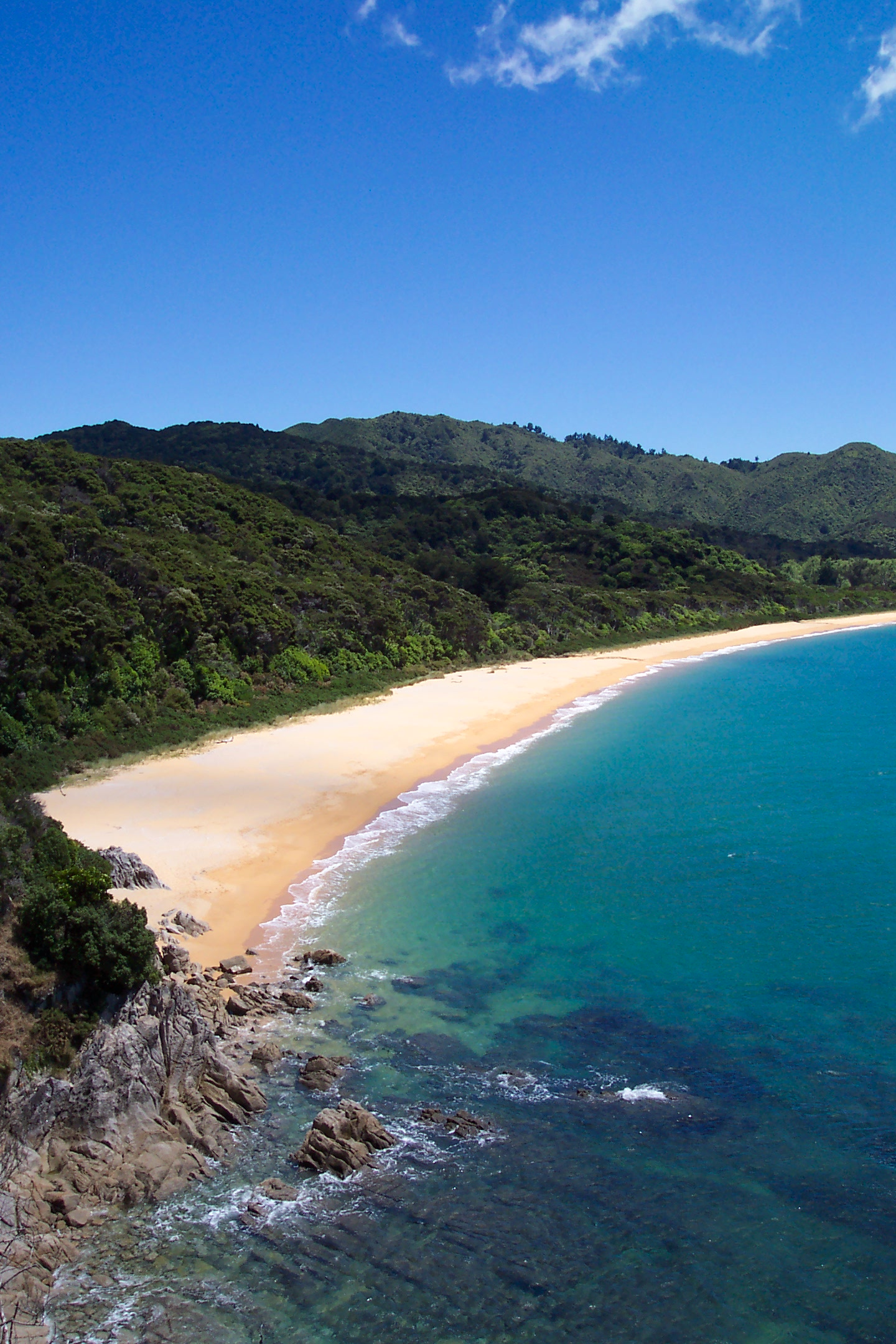 Photo taken by Steffen Hillebrand, near Totaranui, Abel Tasman National Park, NZ.